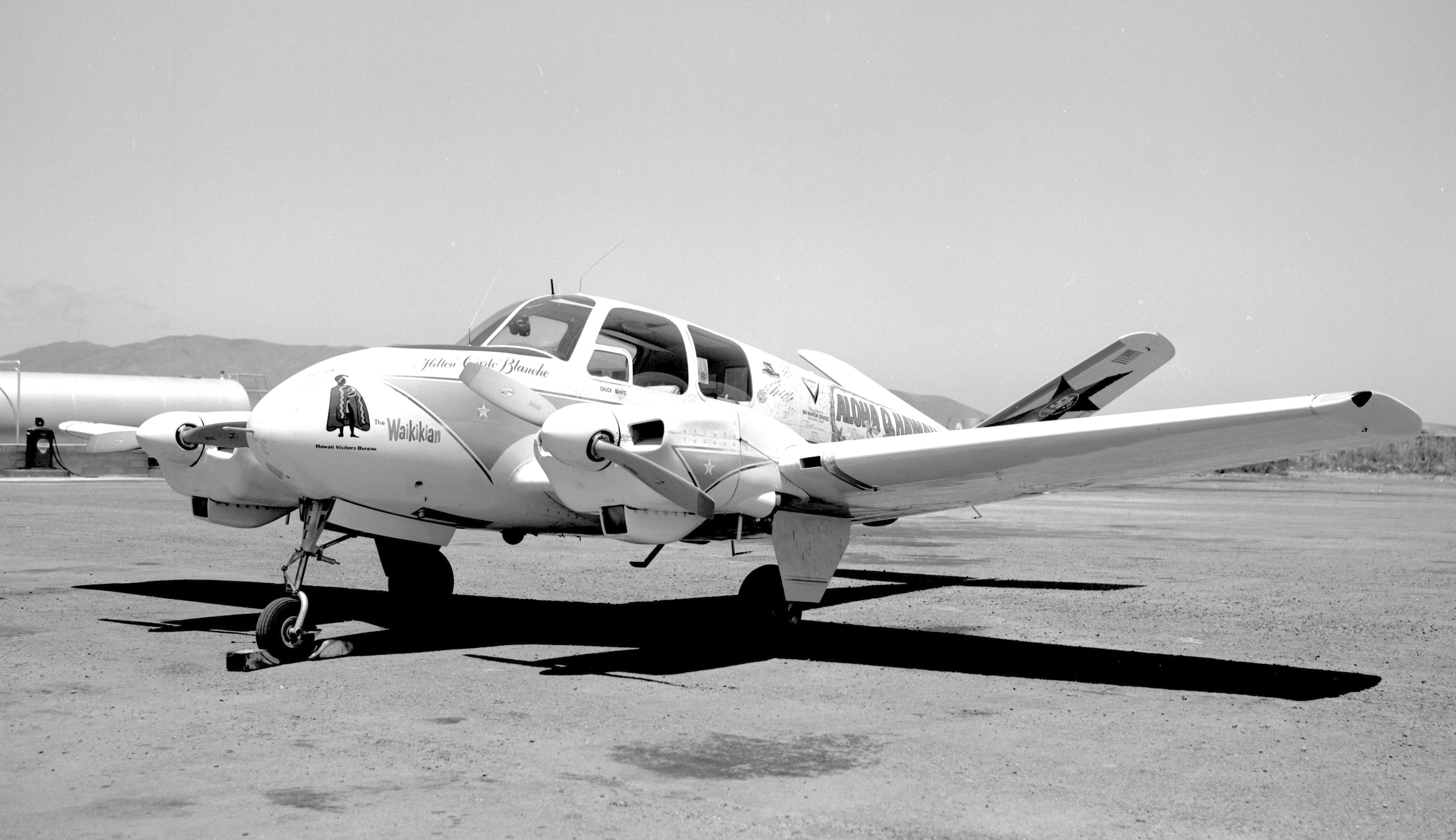 Flown around the world in 1960 by Charles Banfe Jr to commemorate the new Statehood for Hawaii. Banfe was a former experienced Pan Am pilot and this was his second around the world flight in a small plane. Photo at San Francisco in May 1961.